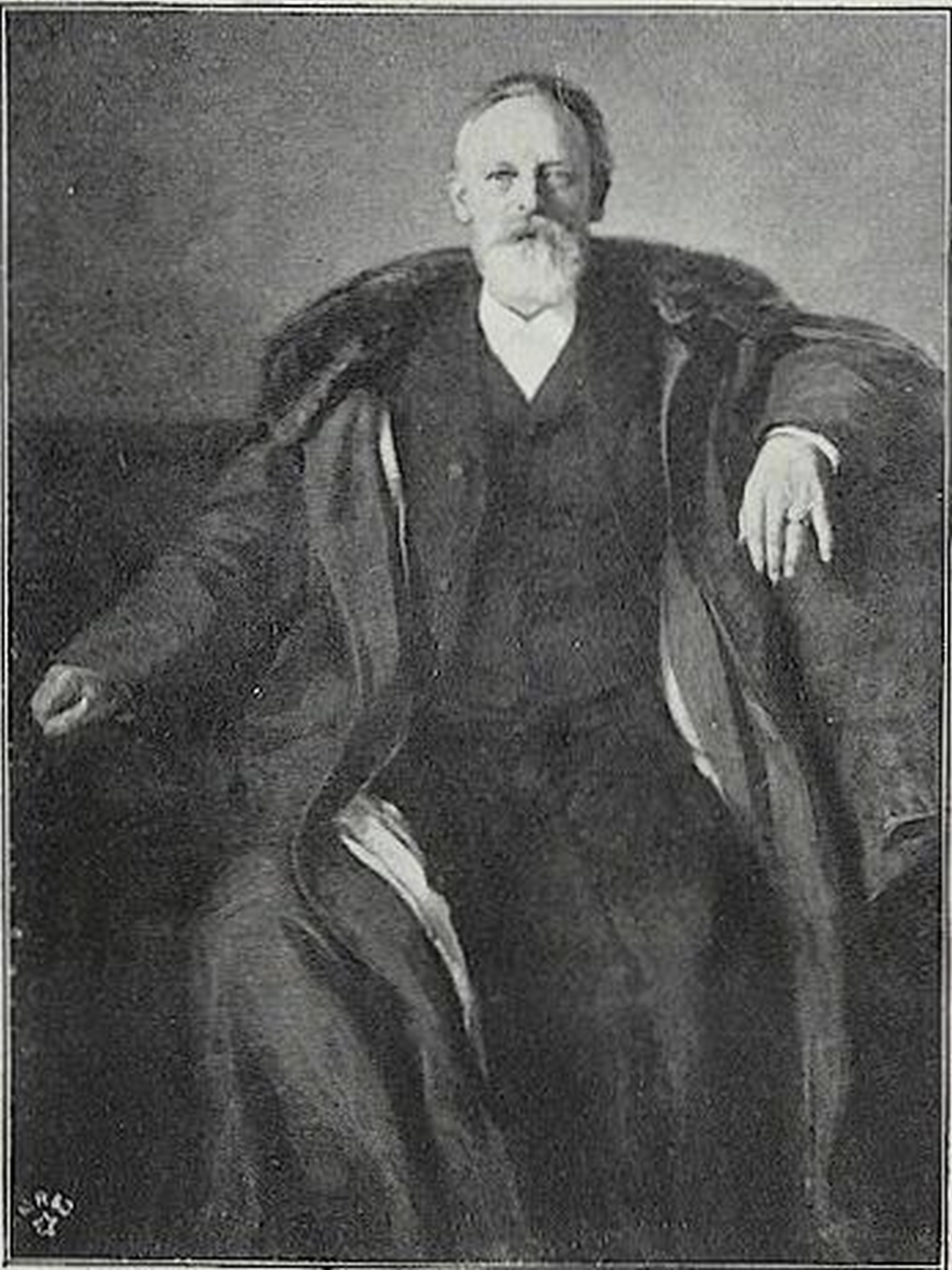 Portrait of the painter prof. Louis Douzette (1834-1924) after a painting of Adolf Doering (1848-1938) from 1901